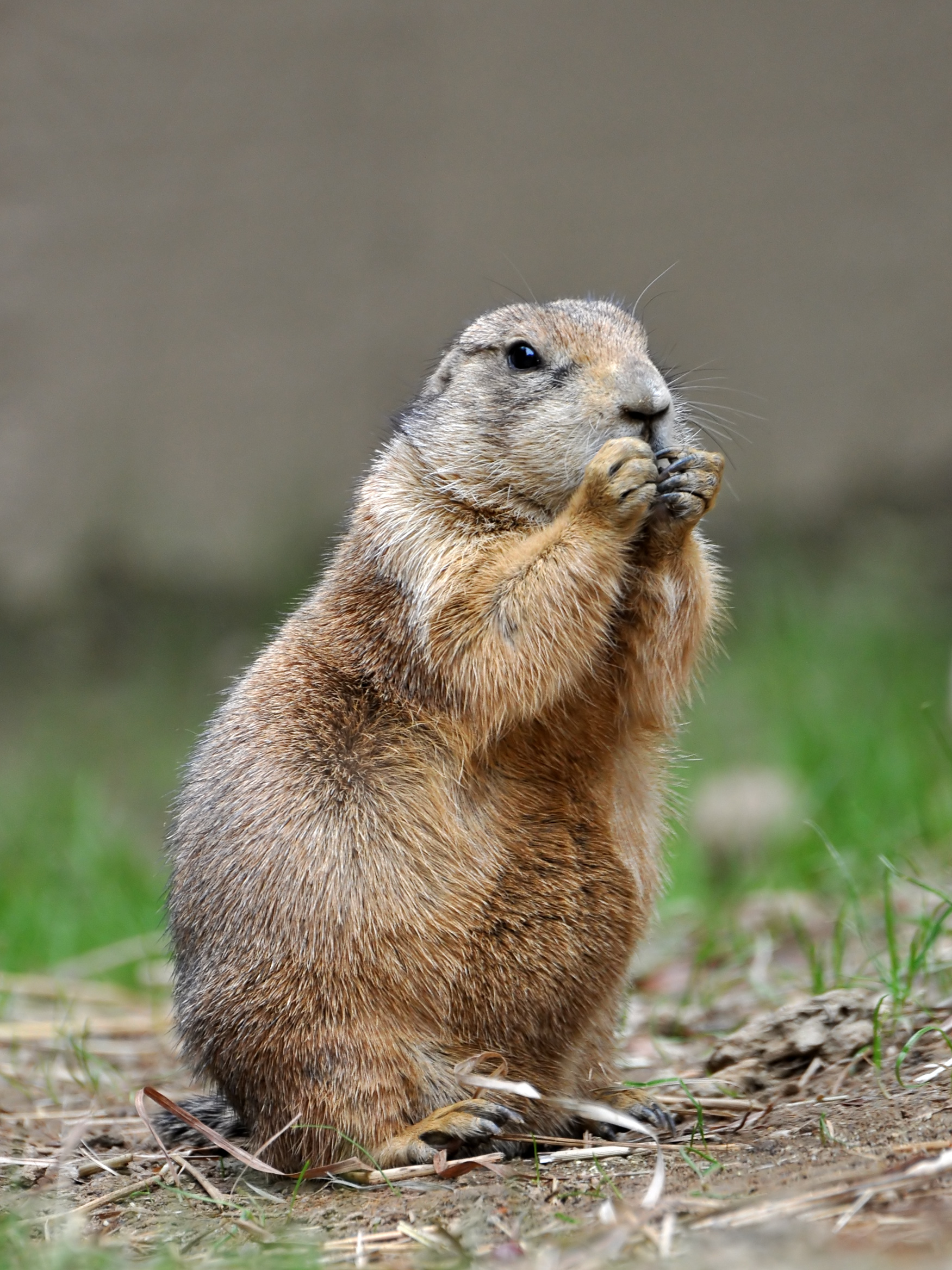 Black-tailed prairie dog (Cynomys ludovicianus) at Smithsonian National Zoological Park in Washington, D.C., USA.